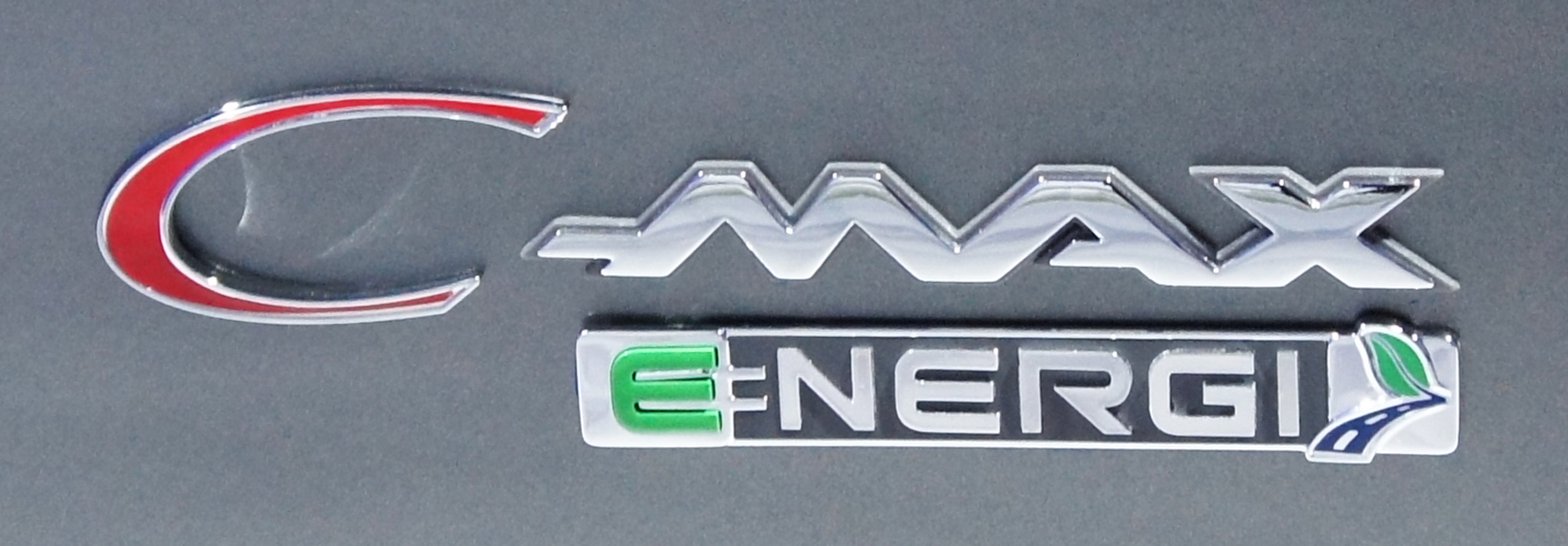 2013 Ford C-Max Energi badge, 2012 Washington Auto Show (District of Columbia)